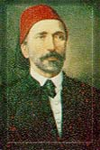 Portrait of Isma'il Raghib Pasha, Prime Minister of Egypt in 1882.